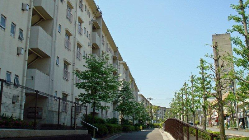 Tsurukawa-danchi at Tsueukawa, Machida, Tokyo